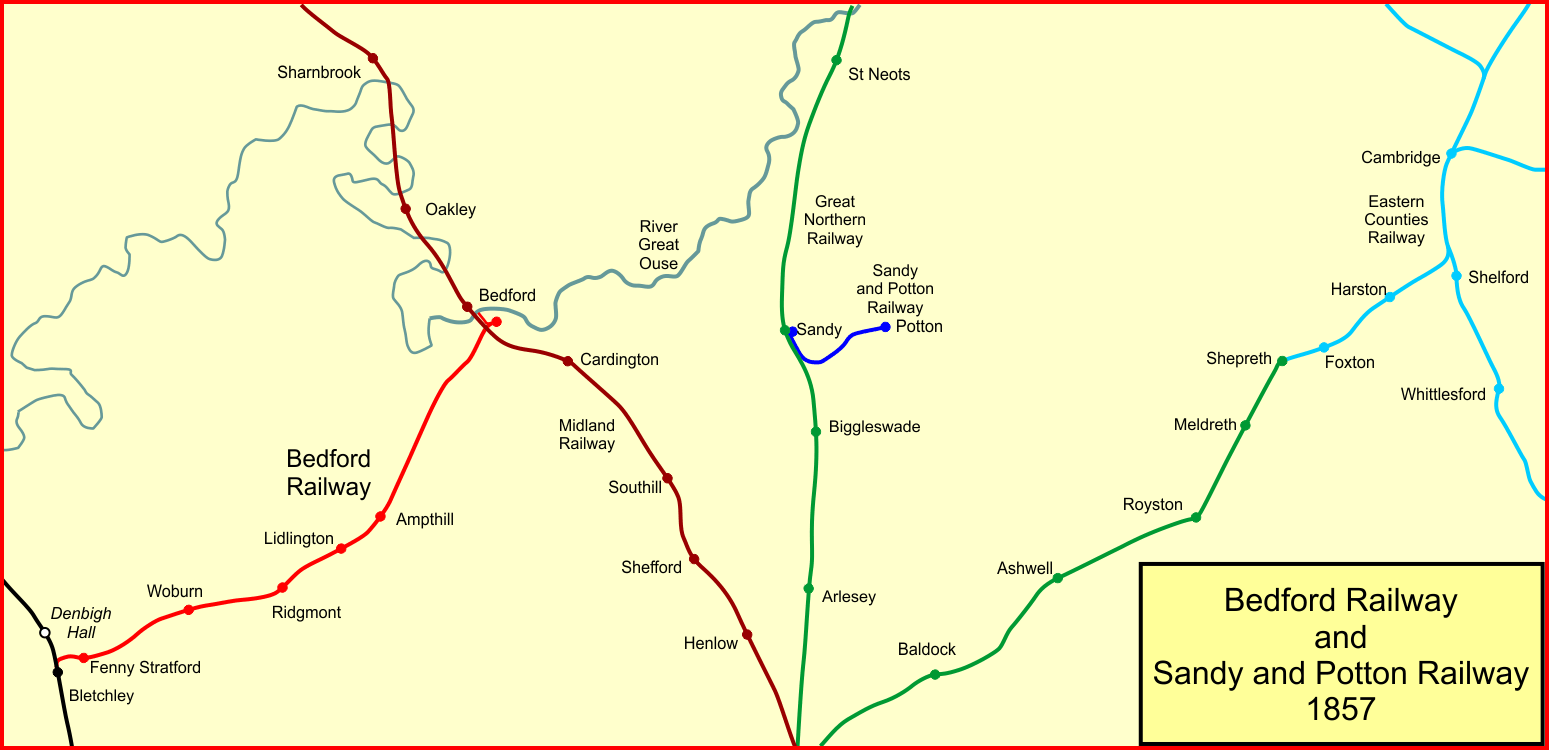 Map showing the Sandy and Potton Railway, UK, in the context of the future Oxford to Cambridge railway line